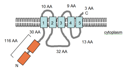 Author: Revel Drummond, 2004